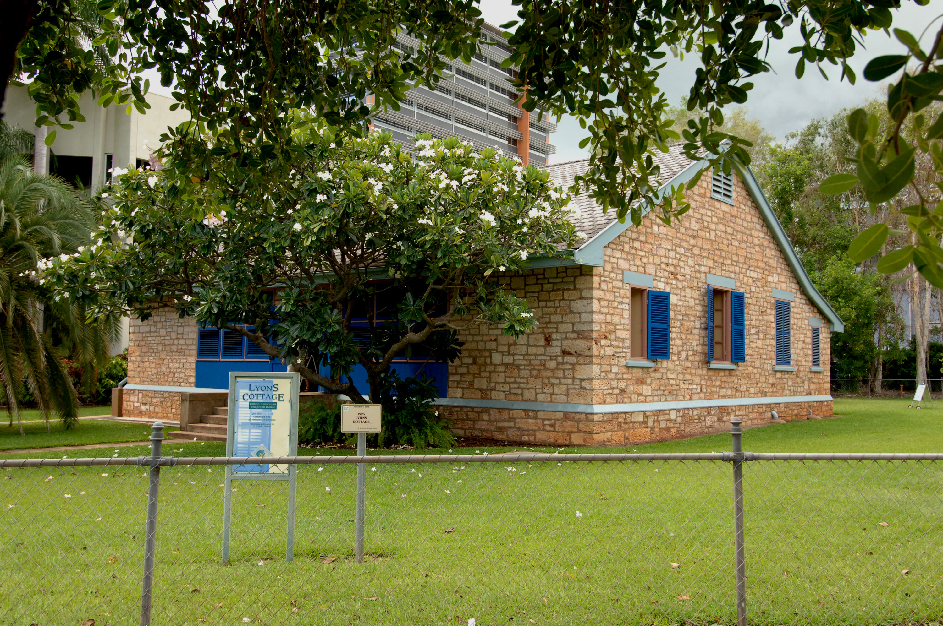 LYONS COTTAGE BUILT IN 1925; WAS THE HEADQUARTERS OF THE BRITISH AUSTRALIAN TELEGRAPH COMPANY WHICH LAID THE FIRST CABLE FROM AUSTRALIA TO JAVA. SEE "DARWIN TRAVEL GUIDE- WIKITRAVEL" OR "DARWIN NORTHERN TERRITORY"